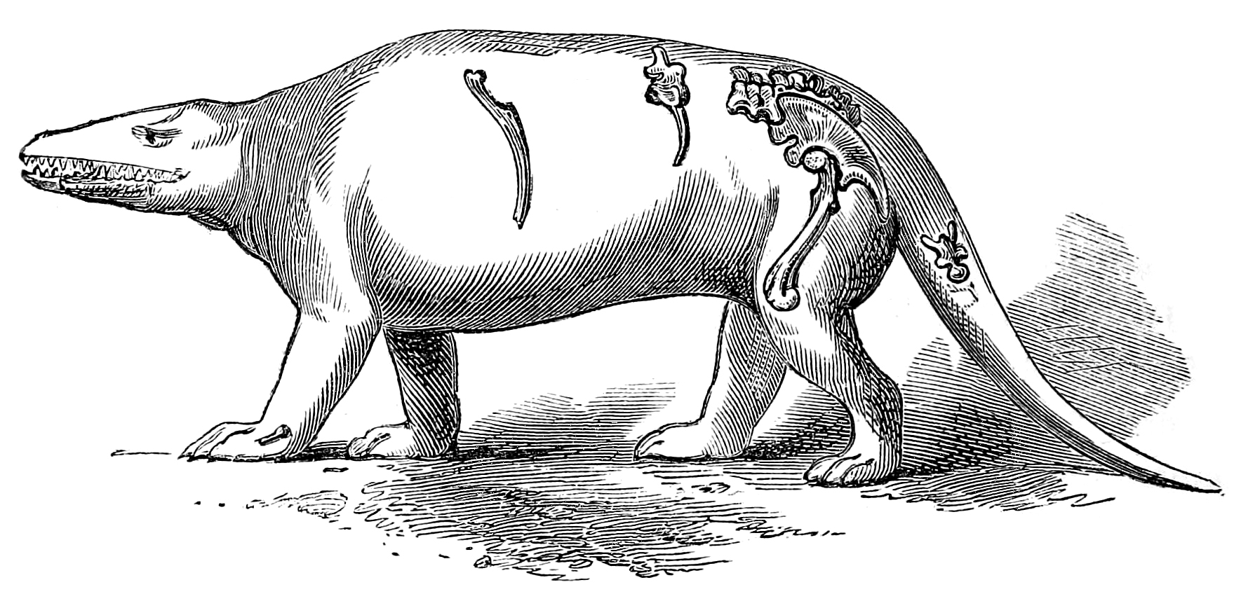 Early life reconstruction of Megalosaurus bucklandii with rendition of the bones (mostly correctly) referred to that species at the time.